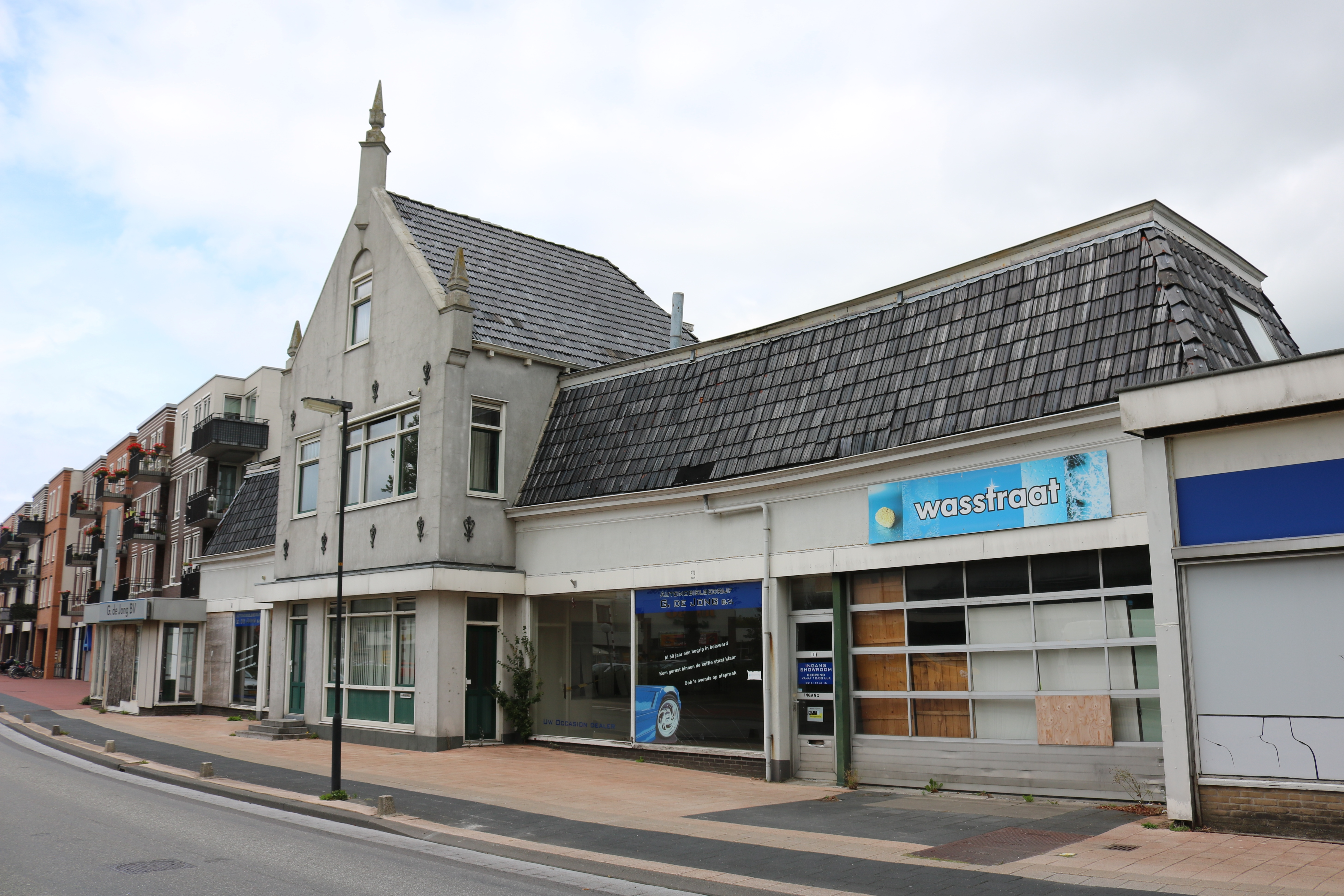 Tramstation Bolsward aan de Snekerstraat 24 (foto: Daniel van der Ree, 20 september 2018)